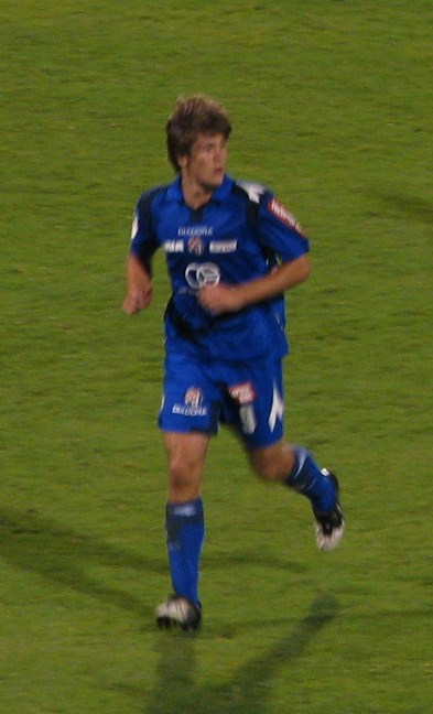 Andrej Kramarić